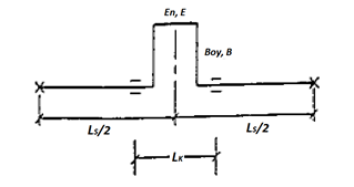 expansion loop 1Türkçe: Simetrik döngü